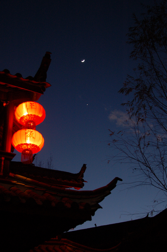 Chinese lanterns in the nightsky of Lijiang, Yunnan Province, China